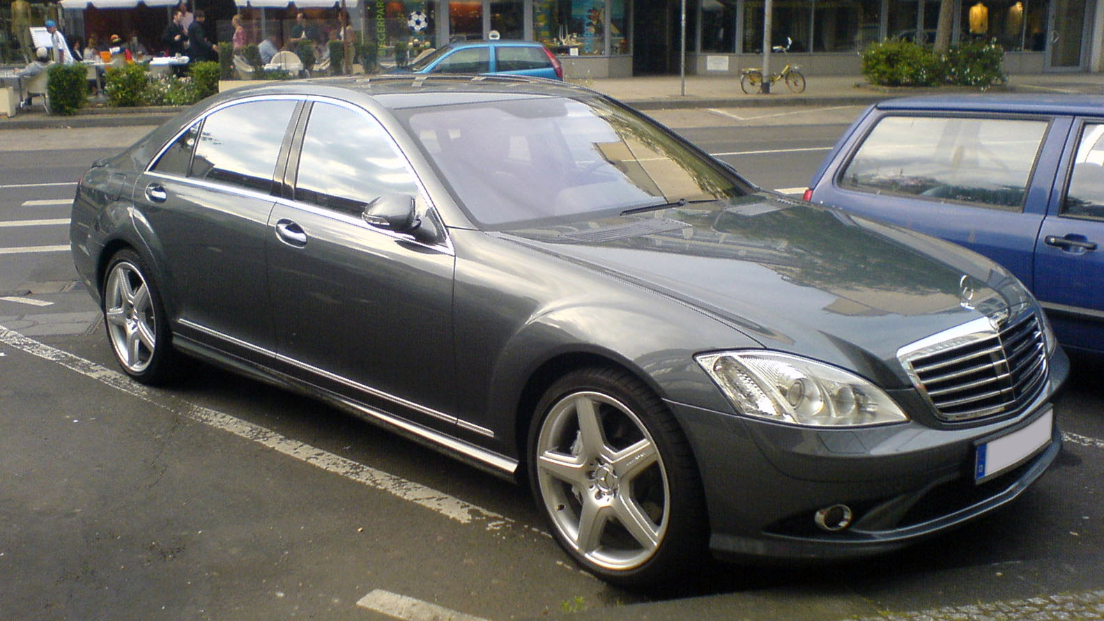 Mercedes S-Class with AMG-Package